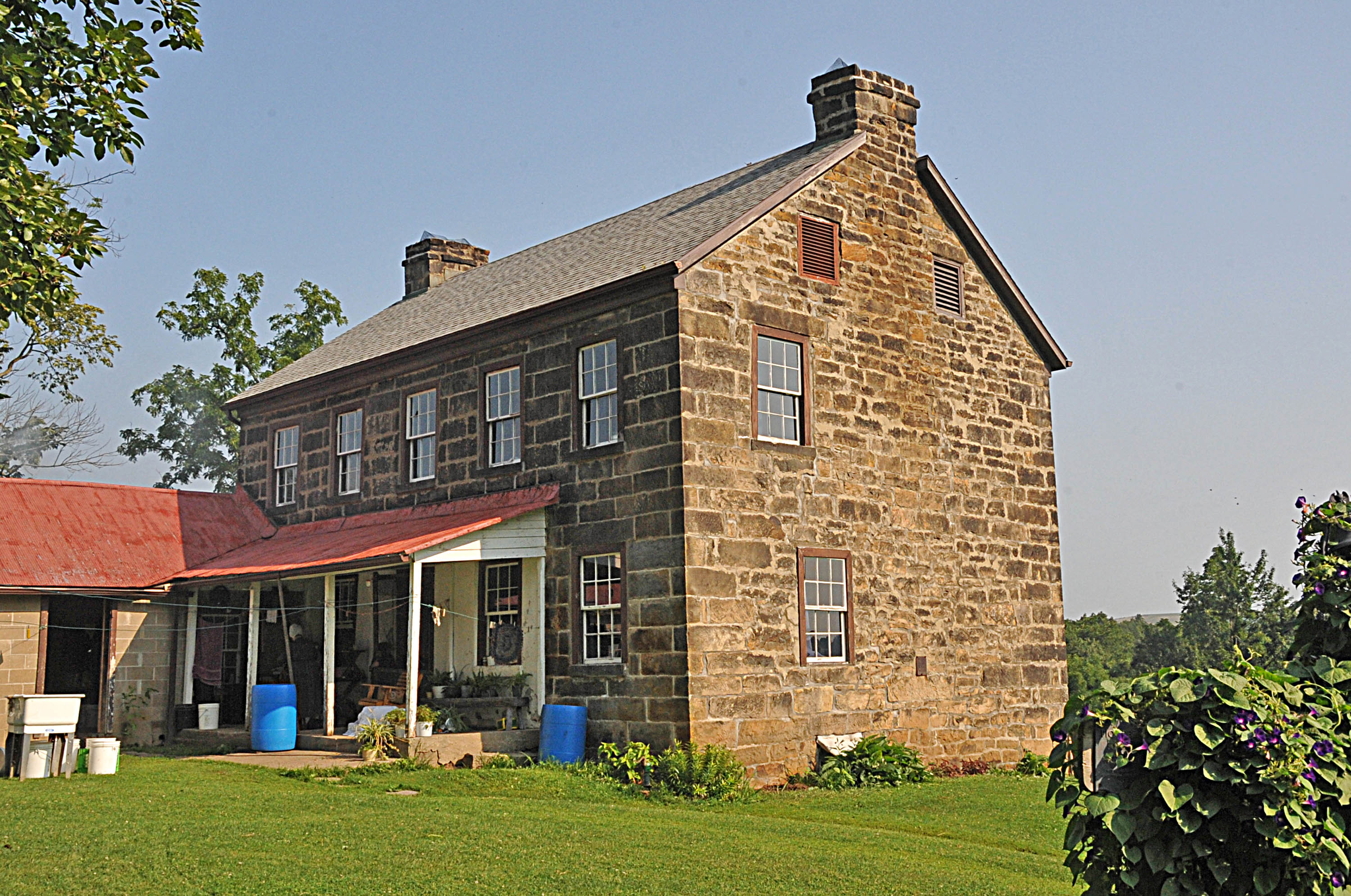 AKA PFOUTZ HOUSE, PIONEER FARM, AND STARKS WILDERNESS CENTER PIONEER FARM; BUILT IN 1820 BY REUBEN PFOUTZ WHO BOUGHT IT FROM HIS BROTHER GEORGE. IT IS OWNED BY THE WILDERNESS CENTER BUT IS LIVED IN BY AN AMISH FAMILY